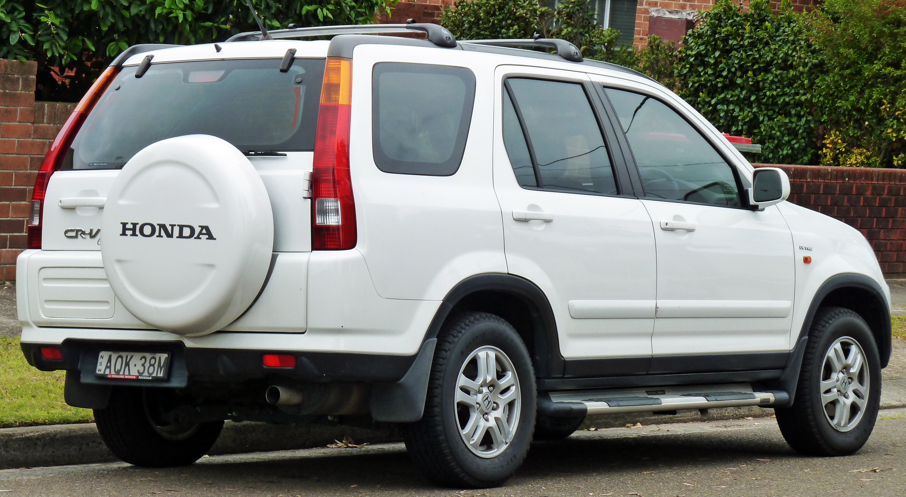 2003 Honda CR-V (RD7 MY03) Sport wagon. Photographed in Sandringham, New South Wales, Australia.